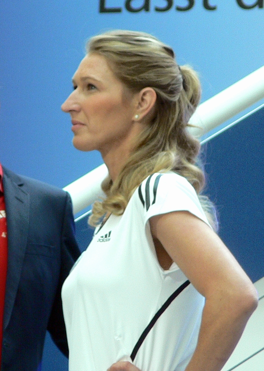 Steffi Graf during a charity tennis tournament for Rexona